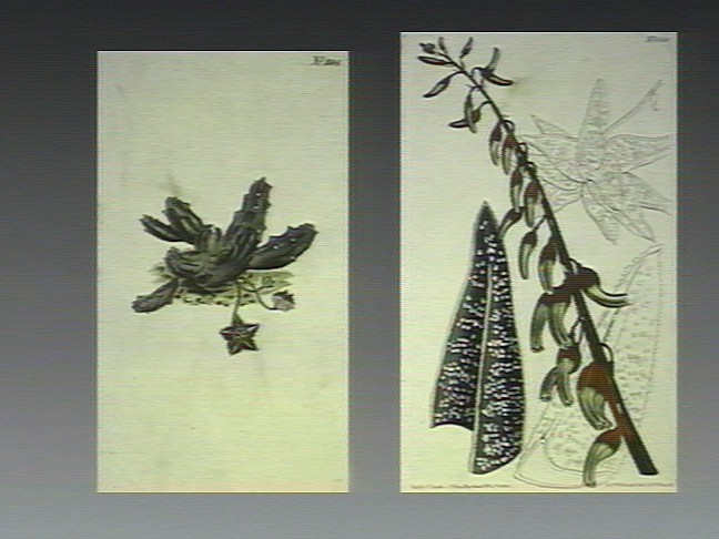 An aloe plant (Aloe carinata): flower and leaves. Coloured engraving by F. Sansom, c. 1810, after S. Edwards. (Right) Iconographic Collections Keywords: aloe carinata; Botany